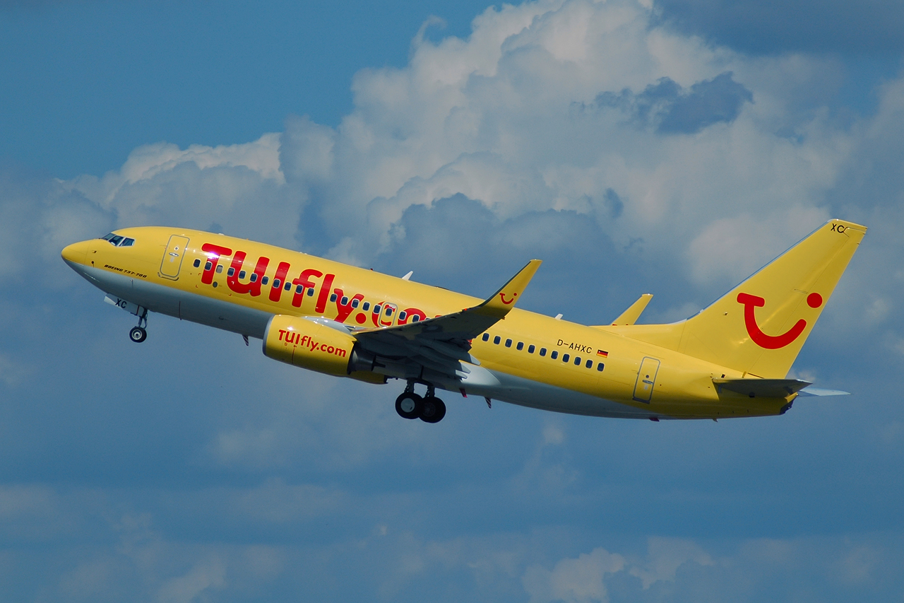 A Boeing 737-700 of German charter airline TUIfly on departure from Bremen Airport.